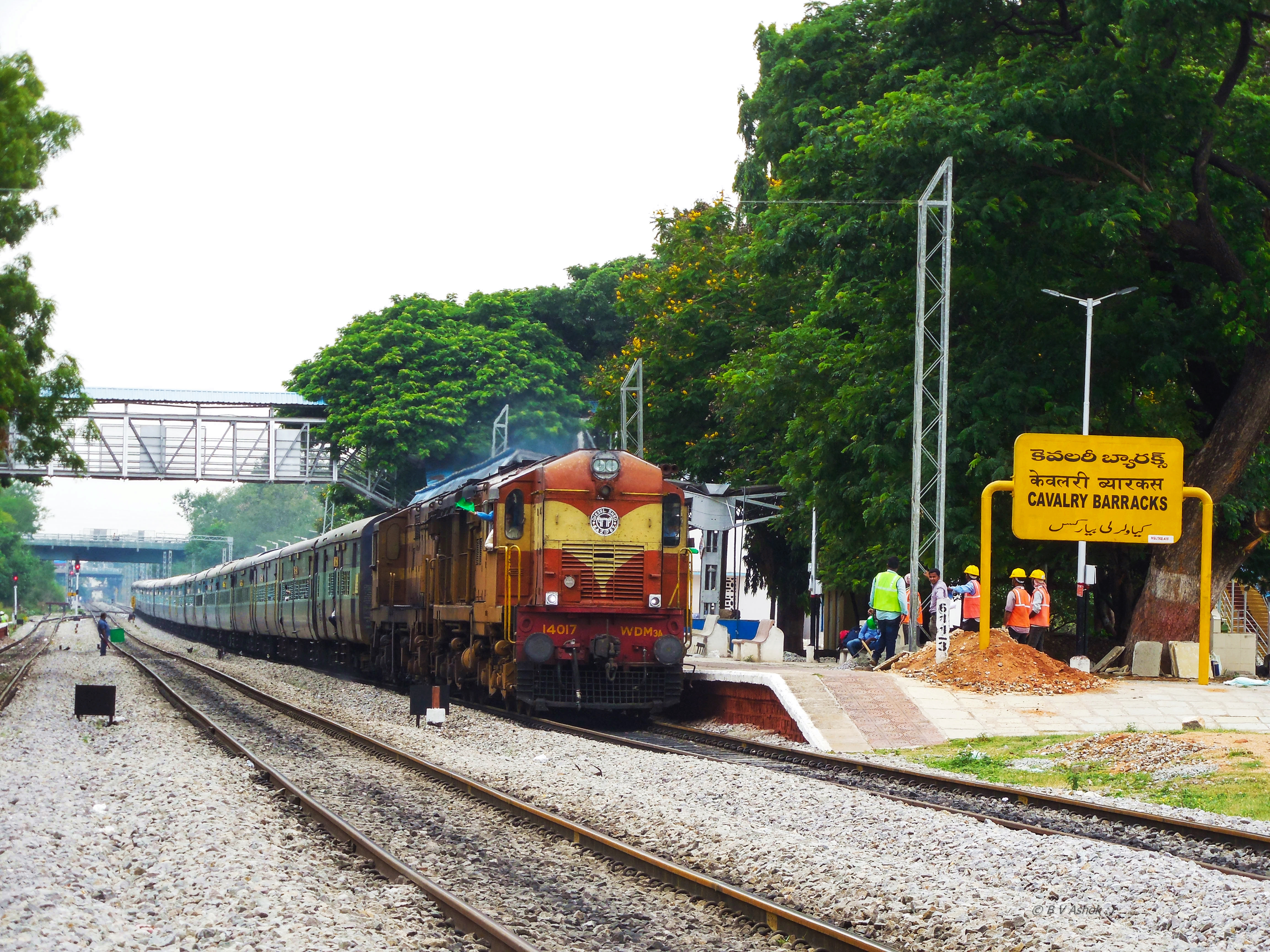 KZJ WDM-3A 14017 smokes leading the twin charge for 17057 Mumbai CST - Secunderabad Devagiri Express...